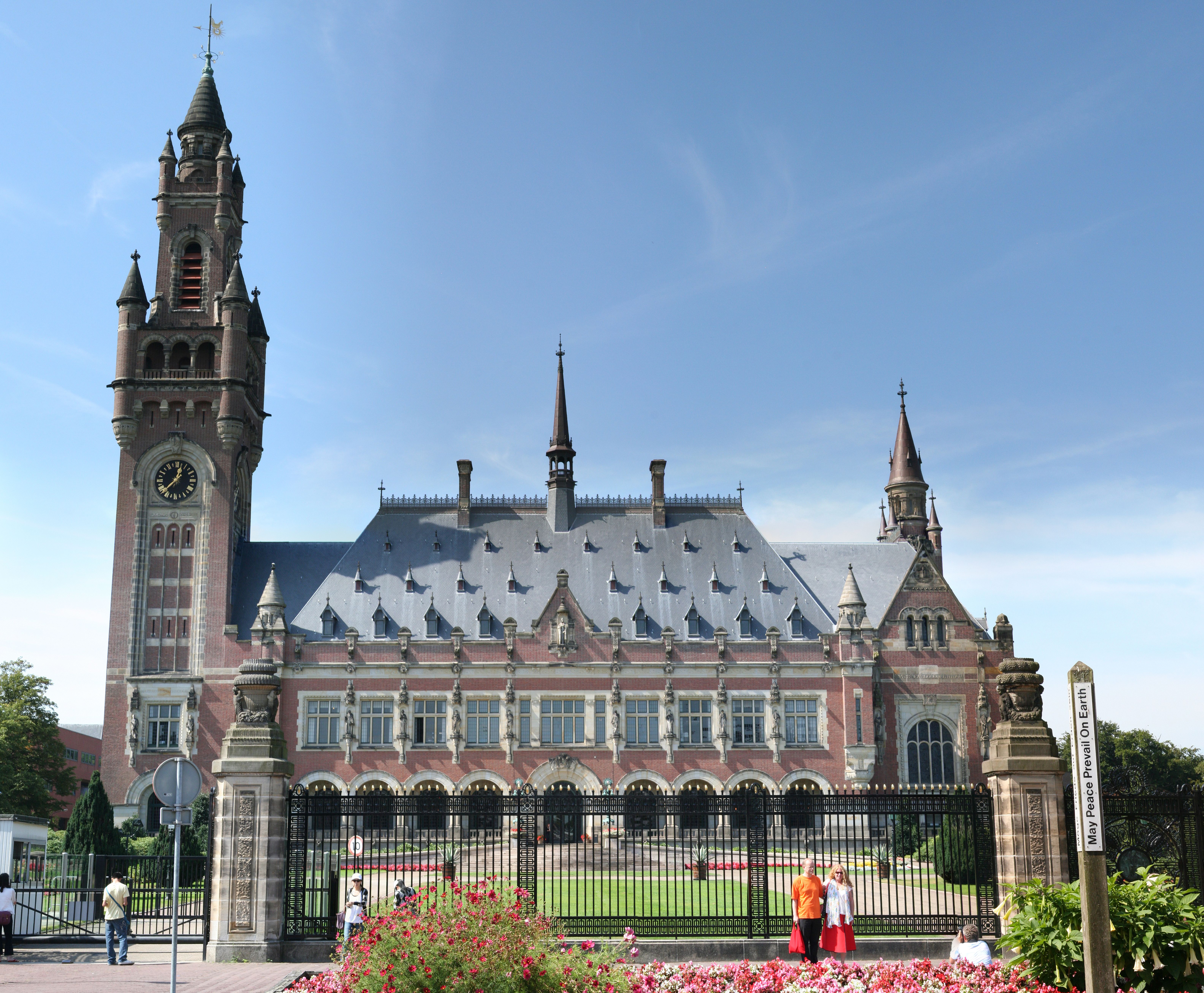 The Peace Palace in The Hague, houses the International Court of Justice.